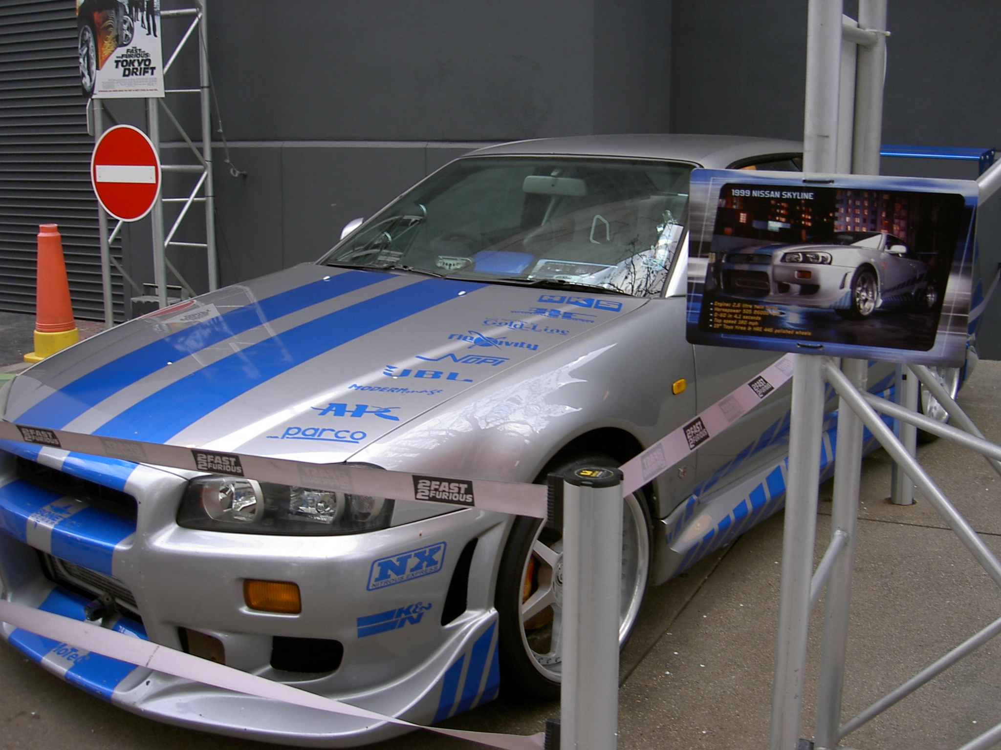 Nissan Skyline which remodeled for the 2 Fast 2 Furious film. Pictured from Universal Studio Hollywood.